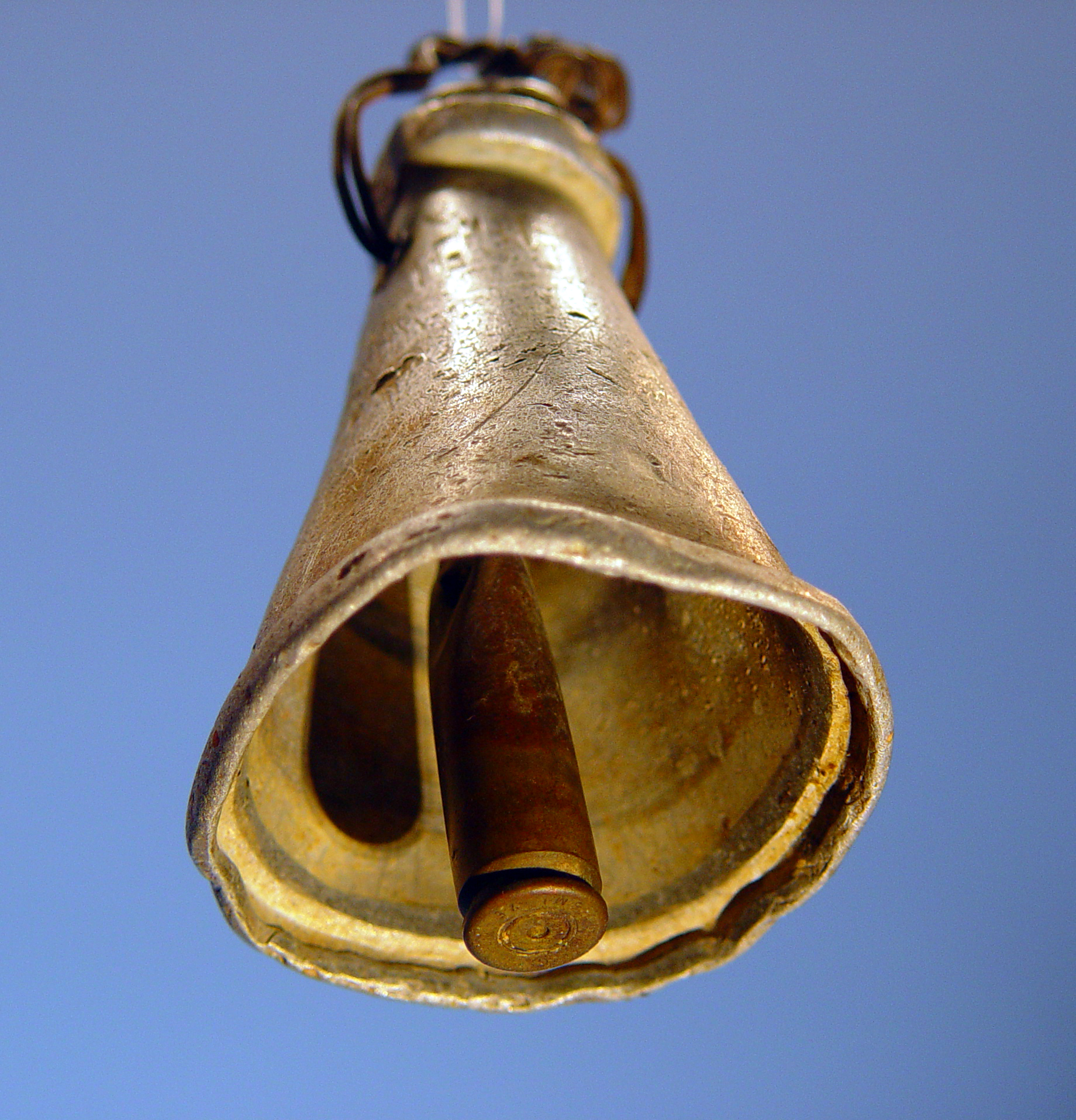 An improvised cowbell, used for sheep or goats. The bell was found in 1988 in a field near Tuqu' (Tekoa) in the Judean hills, the West Bank. The bell's body is made of aluminum, probably a broken kitchen utensil, while the clapper is a brass cartridge case (SMI 25 NATO, probably 7.62×51mm). The combination of a peaceful, pastoral use and a militant detail gives this item an ironic character, symbolizing the tragic daily reality of the Middle East conflict.